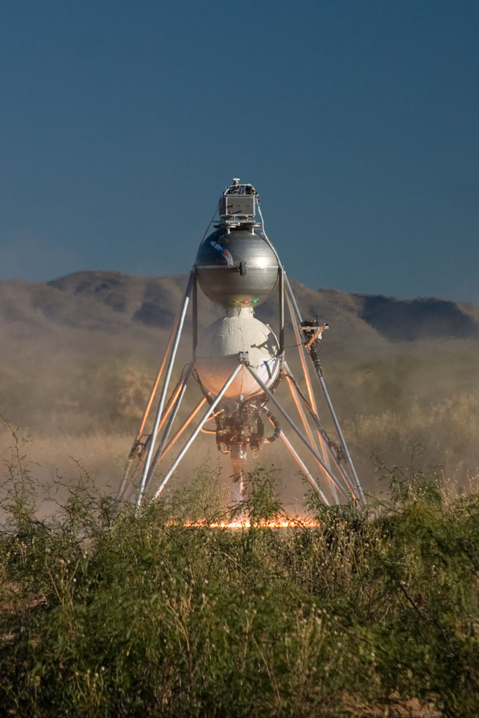 Armadillo Aerospace's MOD vehicle lifts off on the first leg of Lunar Lander Challenge Level 1.